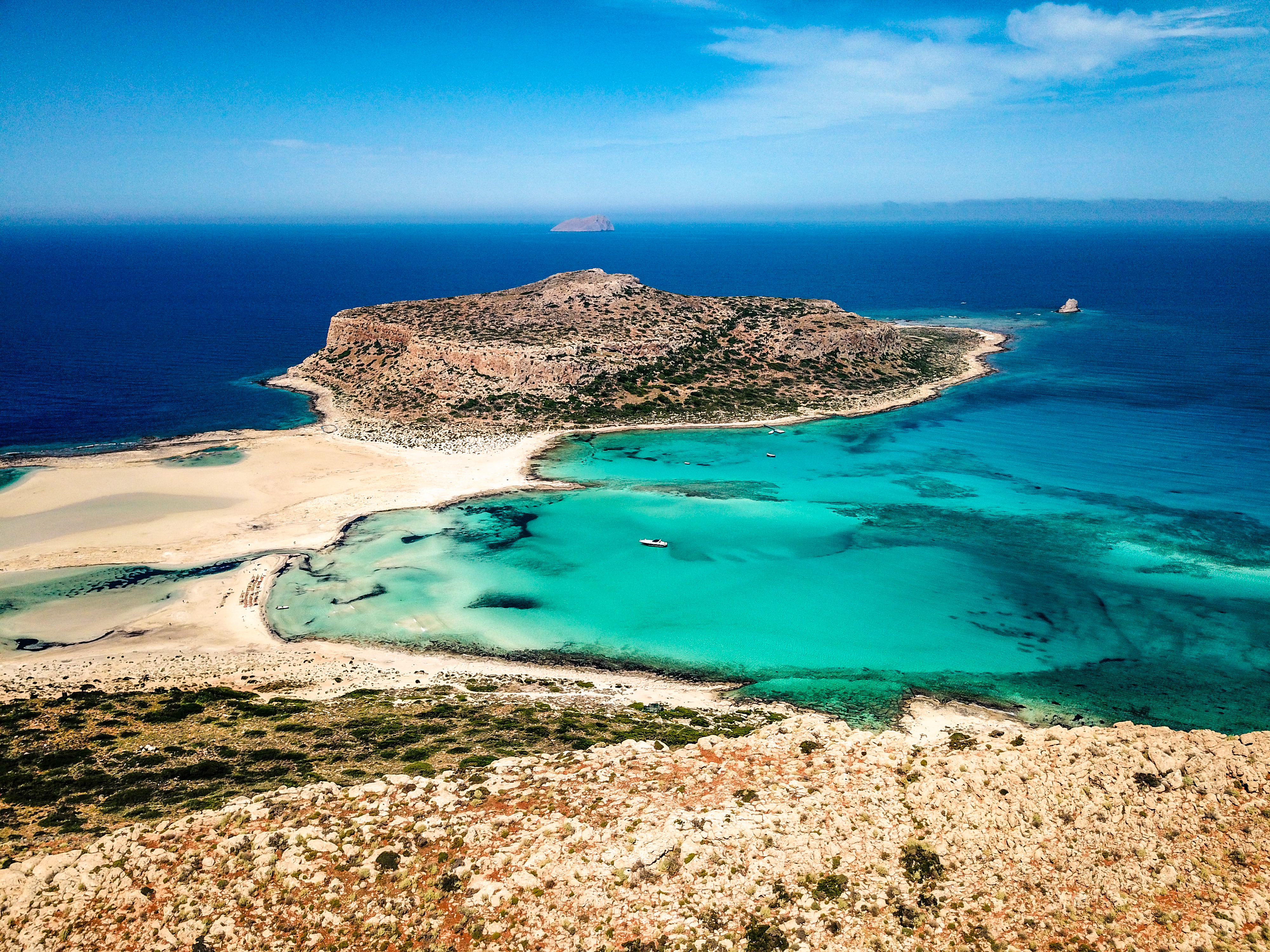 My first ever picture taken with a drone, the aerial view of the amazing paradise beach of Balos. Couldn't believe my eyes. I had seen pictures on the internet, but being there is something unique, the view, the water, truly paradise. This is a photography of Natura 2000 protected area with ID GR4340017